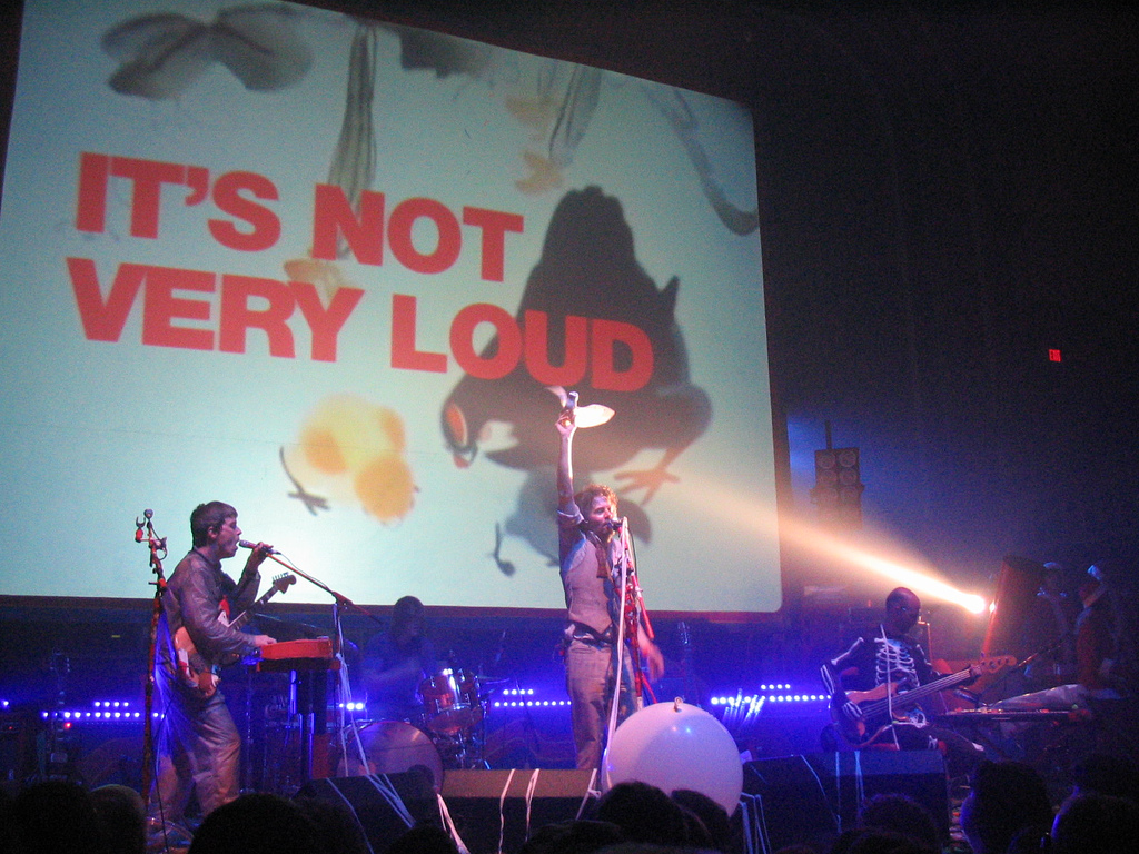 "It's Not Very Loud": The Flaming Lips, The Tabernacle, Atlanta, GA, September 13, 2006.